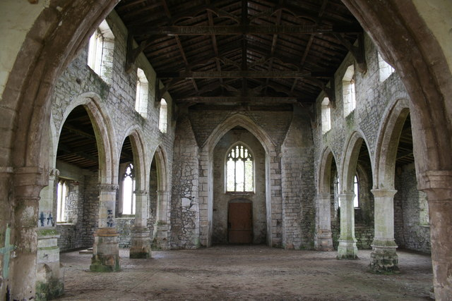 St.Botolph's church nave Looking west from the chancel, Early English arcades and Perpendicular tower arch